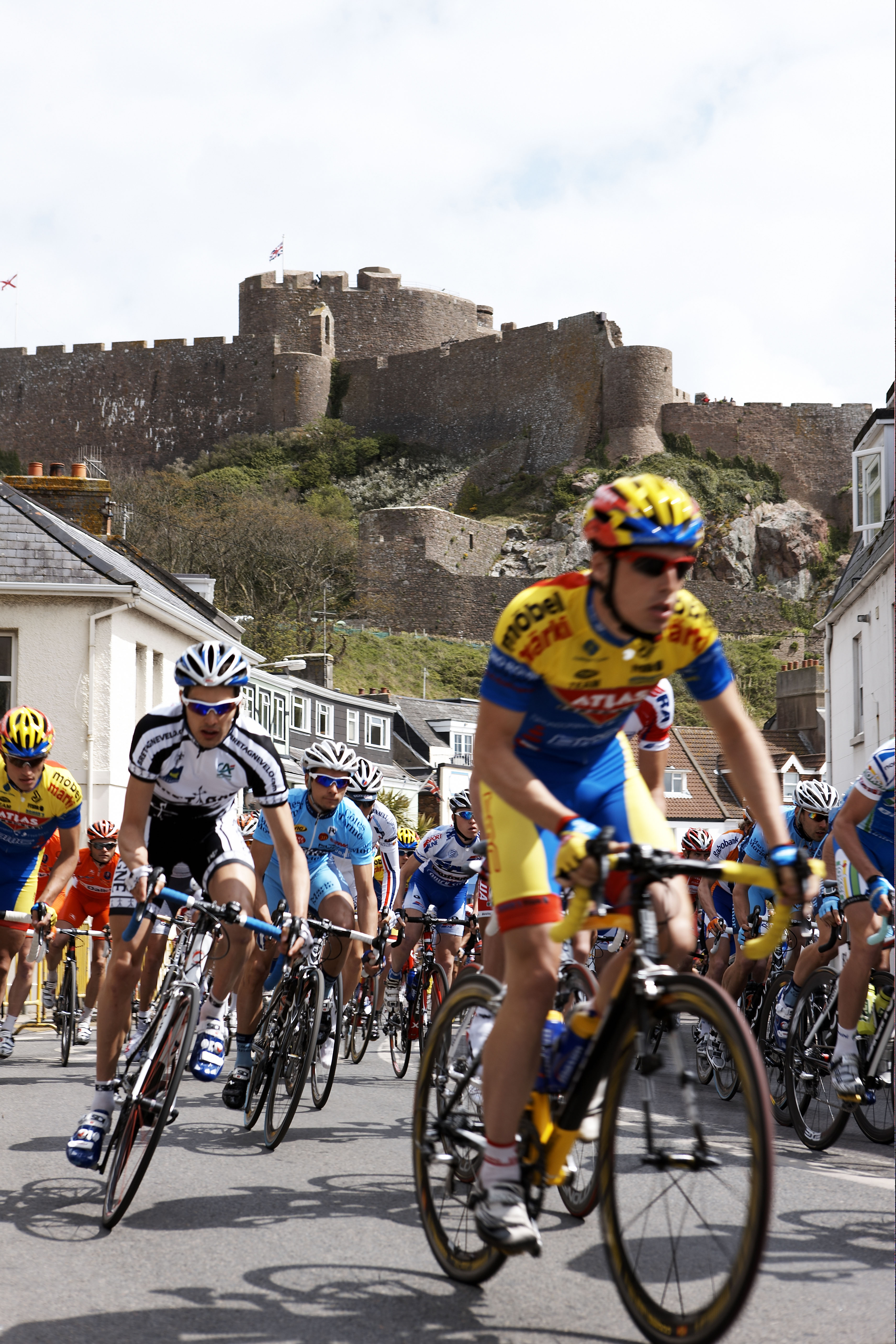 Over a hundred professional riders, with teams competing from all over the world including members of the British National cycle team, took part in the opening stage of the Tour de Bretagne 2010. It was the first time the event, escorted by the President of France's Garde Republicaine motorcyclecade, had left its native shores of Brittany, France. It was a spectacular day.